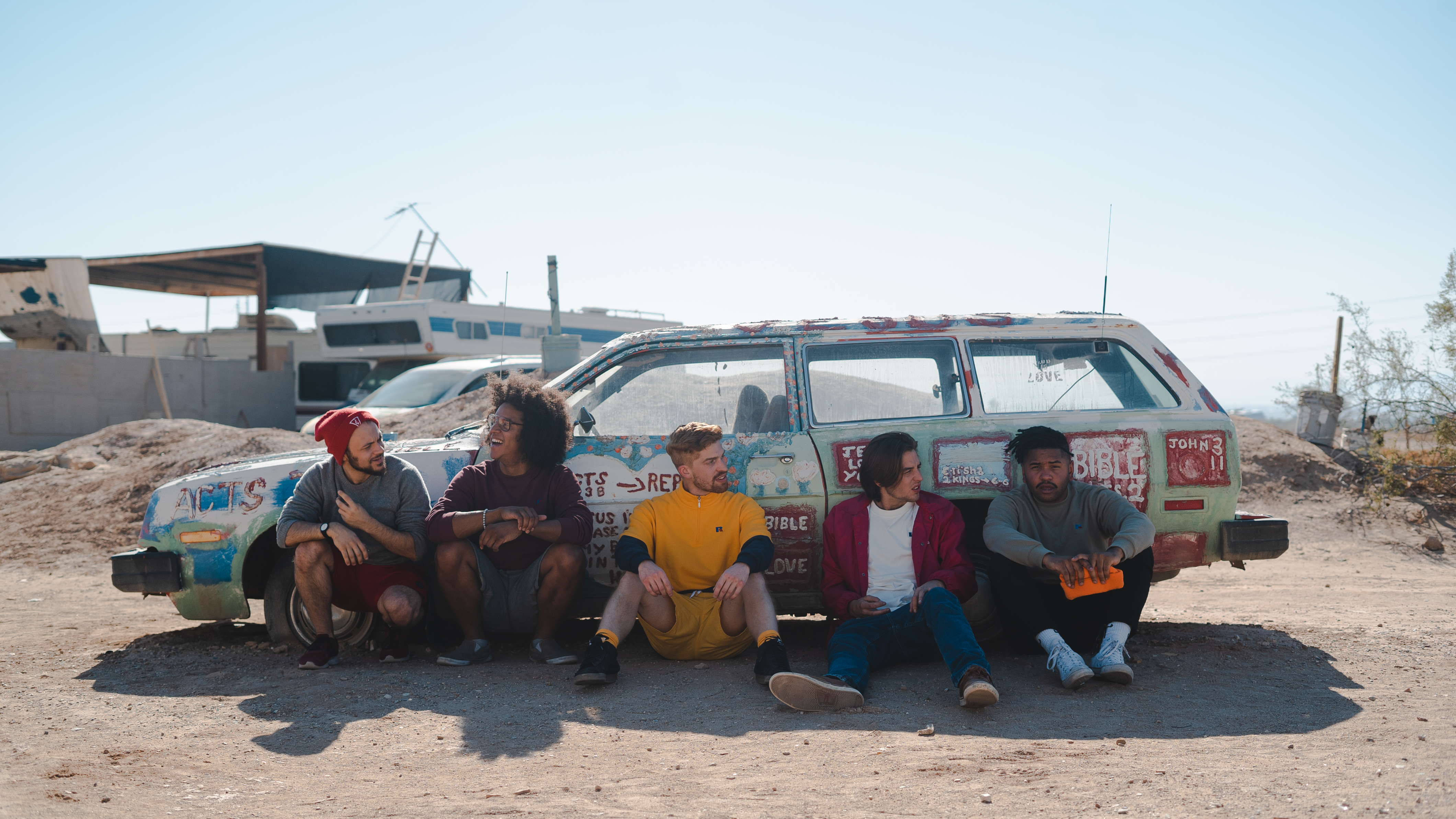 Cook Thugless at Salvation Mountain in Imperial County, CA